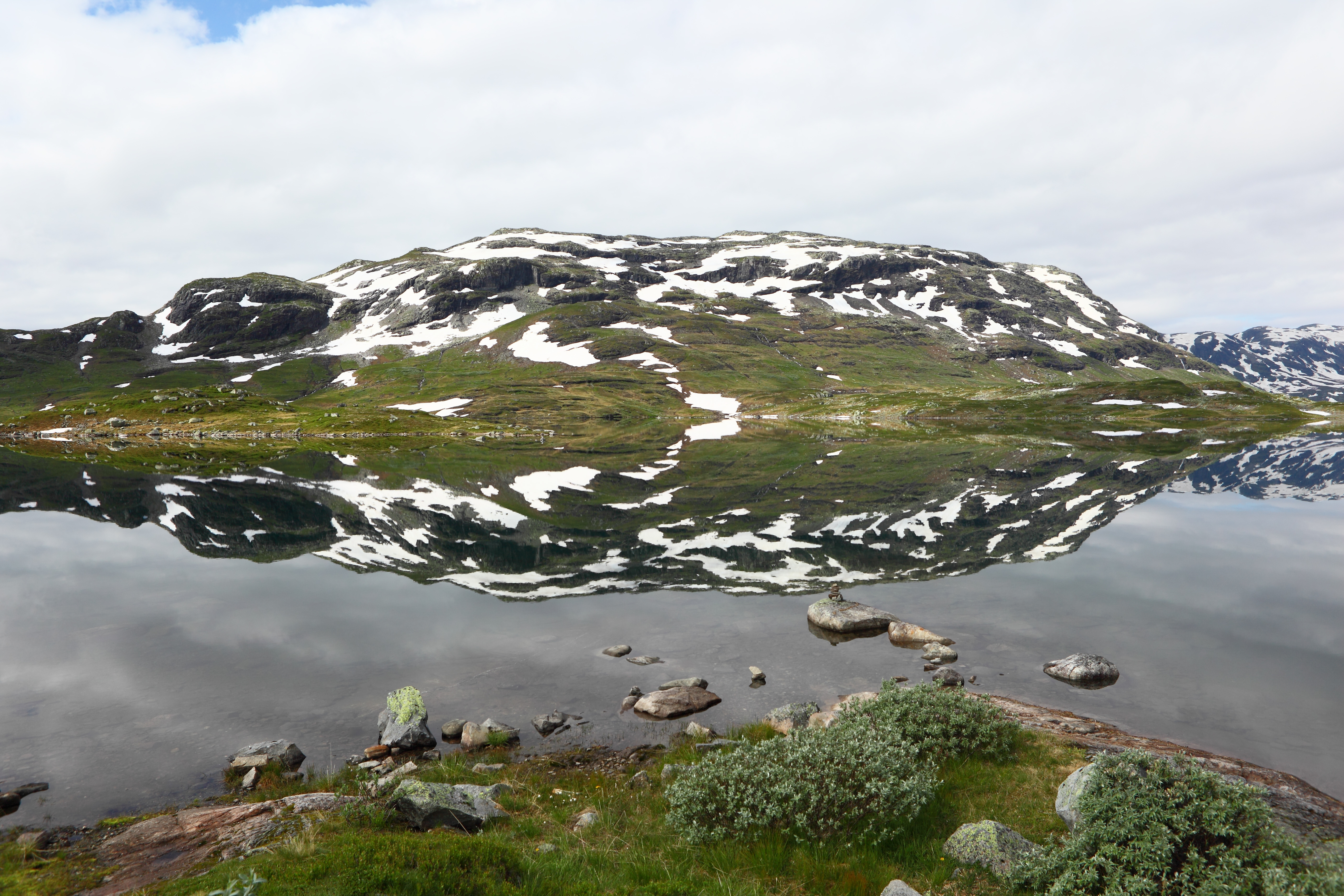 A view of the lake Ståvatn, Telemark county in Norway.